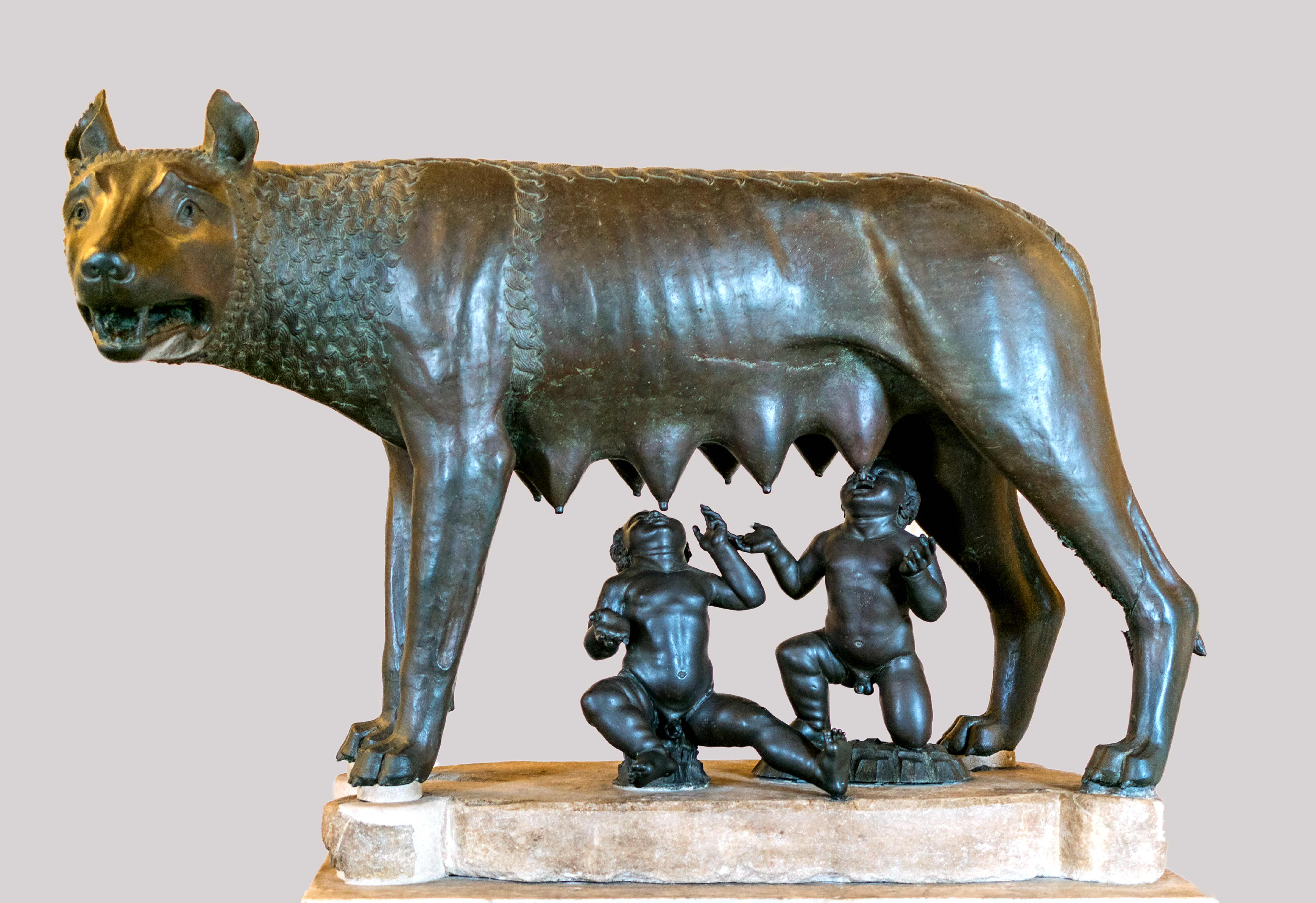 Capitoline she-wolf (Latin Lupa Capitolina), a bronze figure showing Romulus and Remus, the mythical founders of the city of Rome